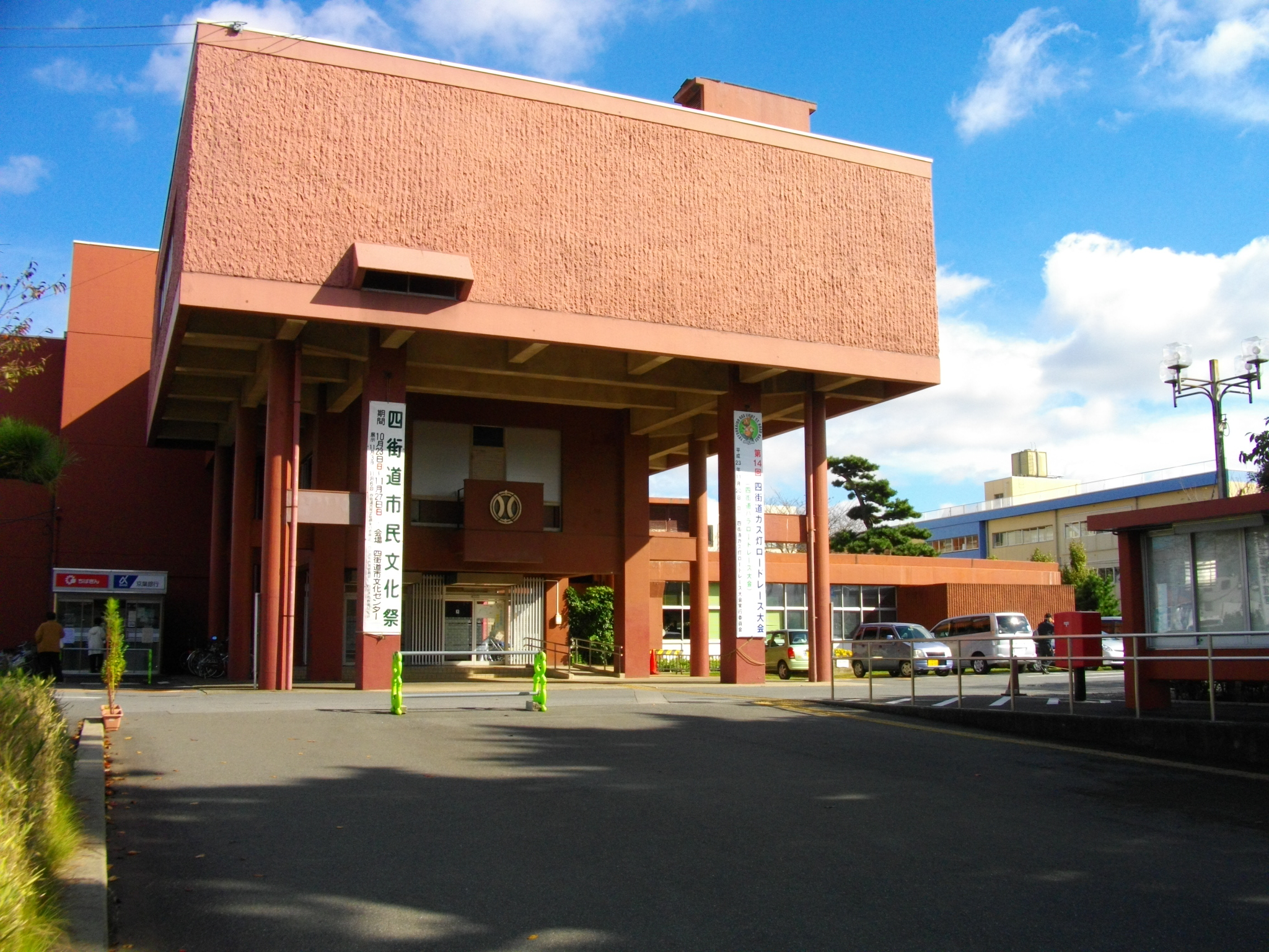 Yotsukaido City Hall